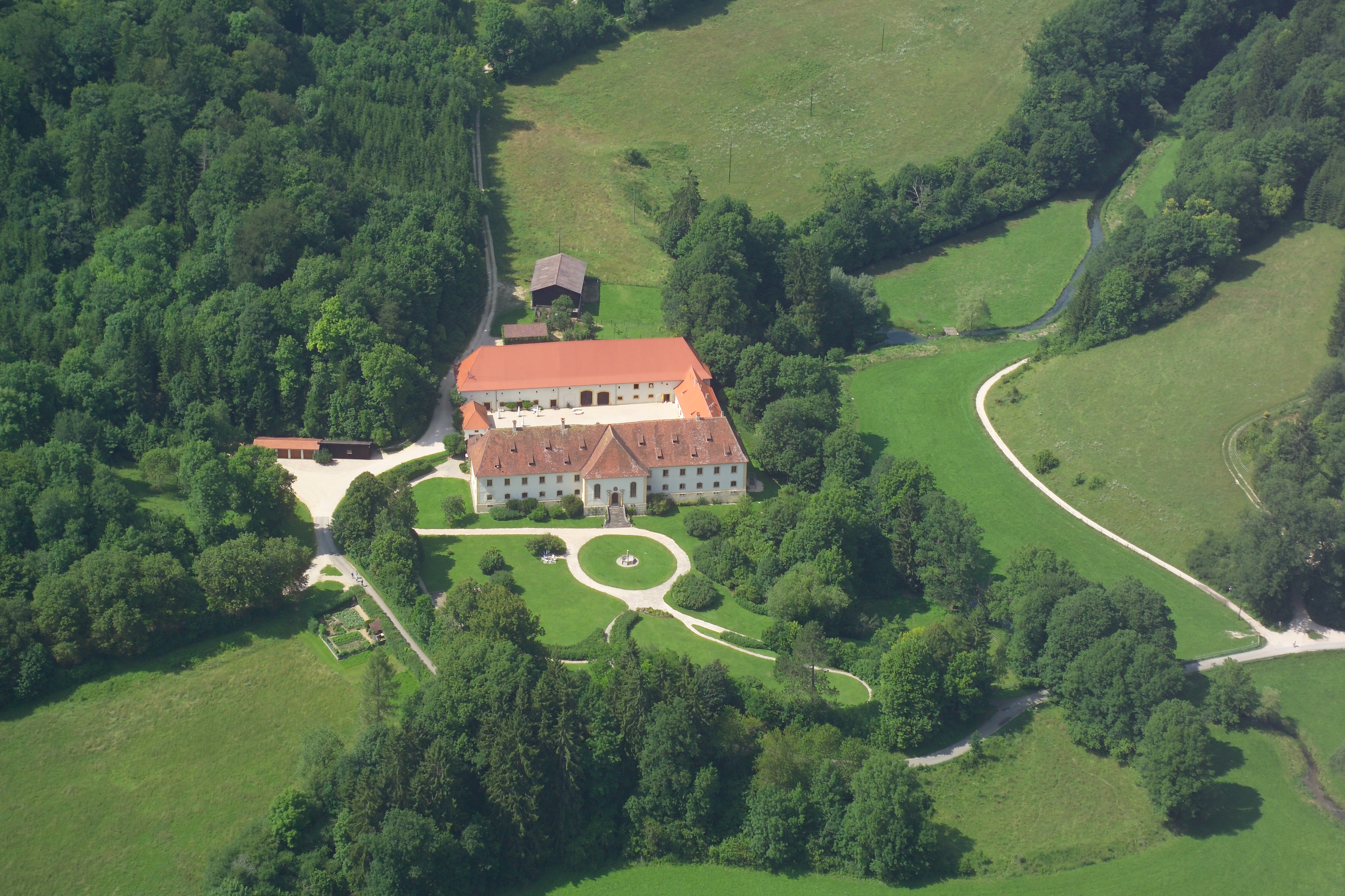 Castle Ehrenfels